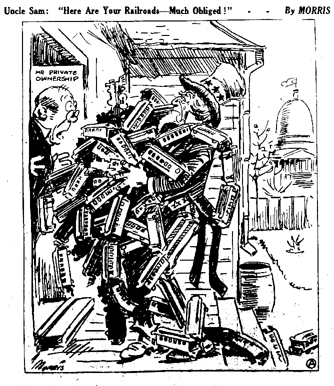 Caption: "Uncle Sam: 'Here are your railroads—Much obliged!'" Cartoon showing U.S. government (depicted as Uncle Sam) returning the railroads to private ownership in 1920, a jumbled mess.